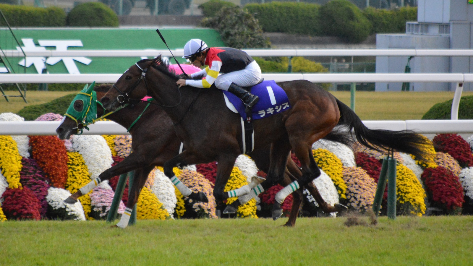 Japanese race horse Lachesis at Kyoto racecourse.